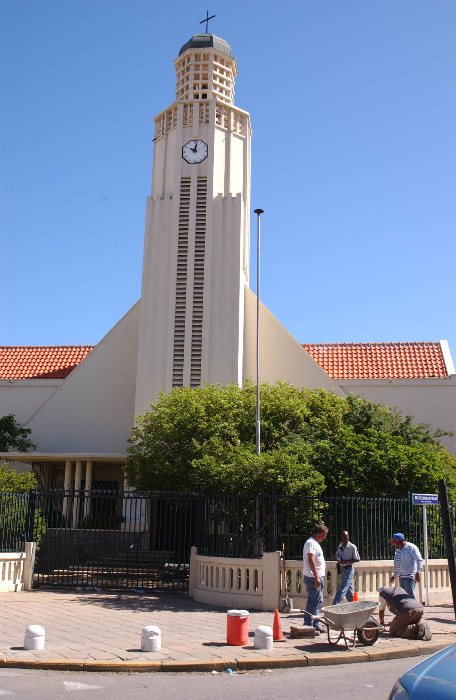 NEWER PROTESTANT CHURCH in Oranjestad, Aruba